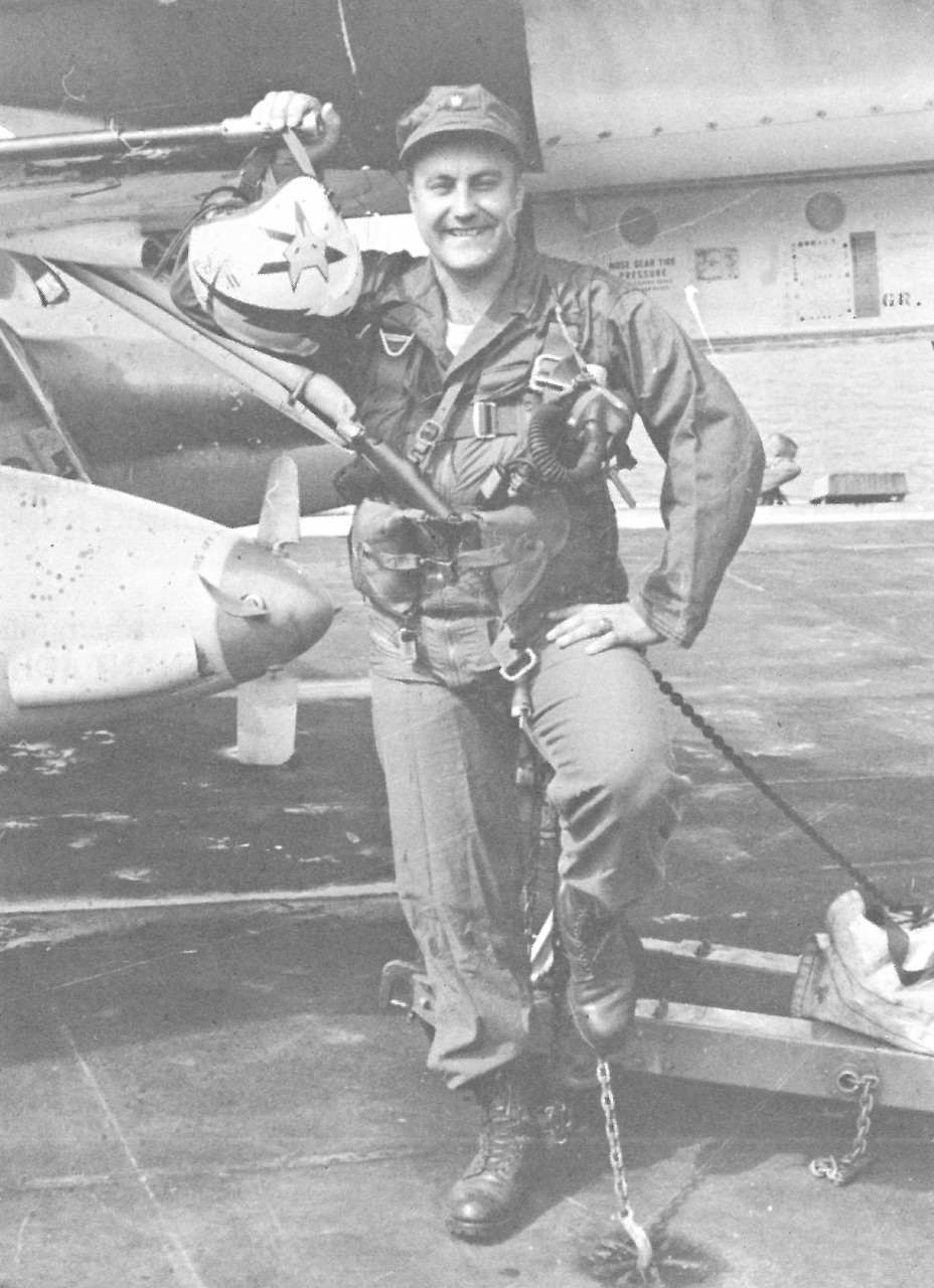 Lt. Cmdr. Wilmer P. Cook poses with his Douglas Skyhawk A-4E, which he named the "City of Annapolis" in honor of his hometown. (NHHC Archives)